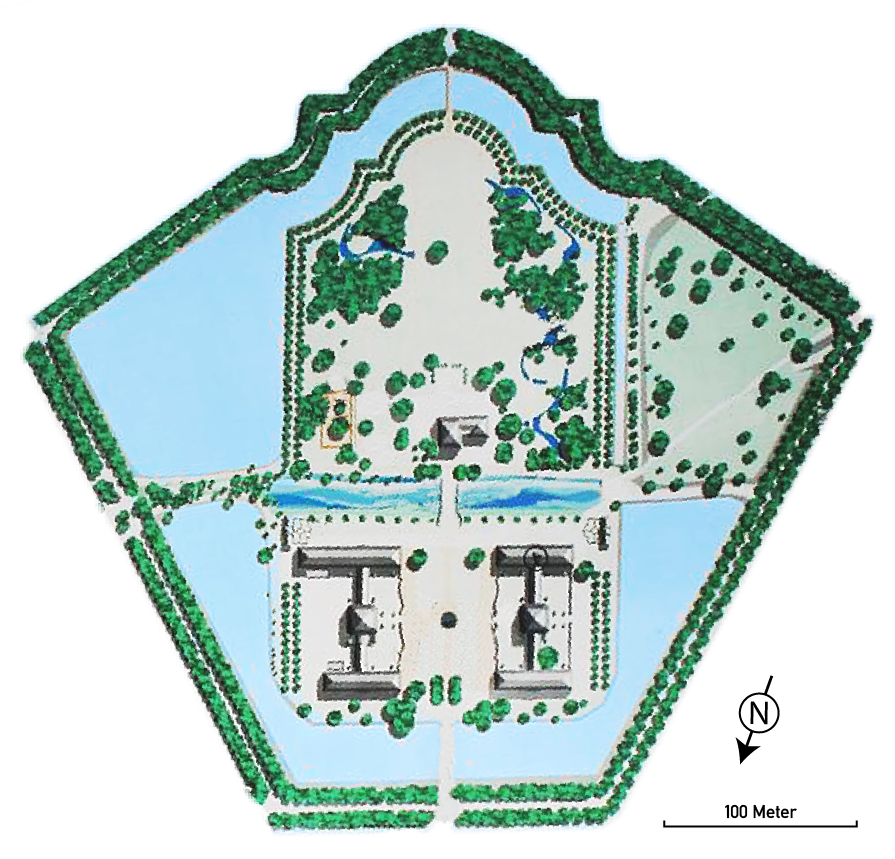 Map of Schloss Wickrath in Mönchengladbach turned in a way that the conception of the site in form of an Earl's crown is appearing.